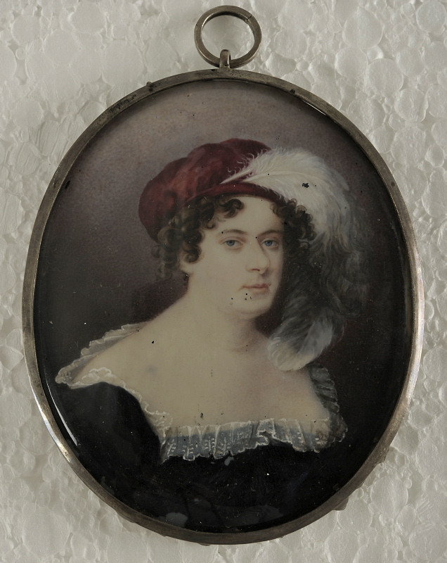 Konstancja Potocka (1783-1852)